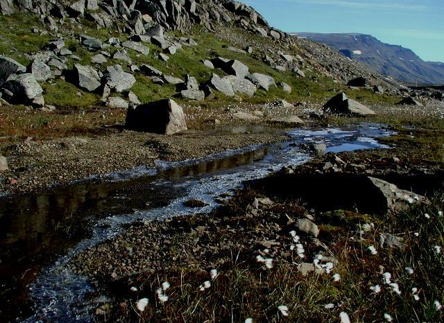 Eriophorum angustifolium: At the natural habitat on a mountain pass in Iceland.